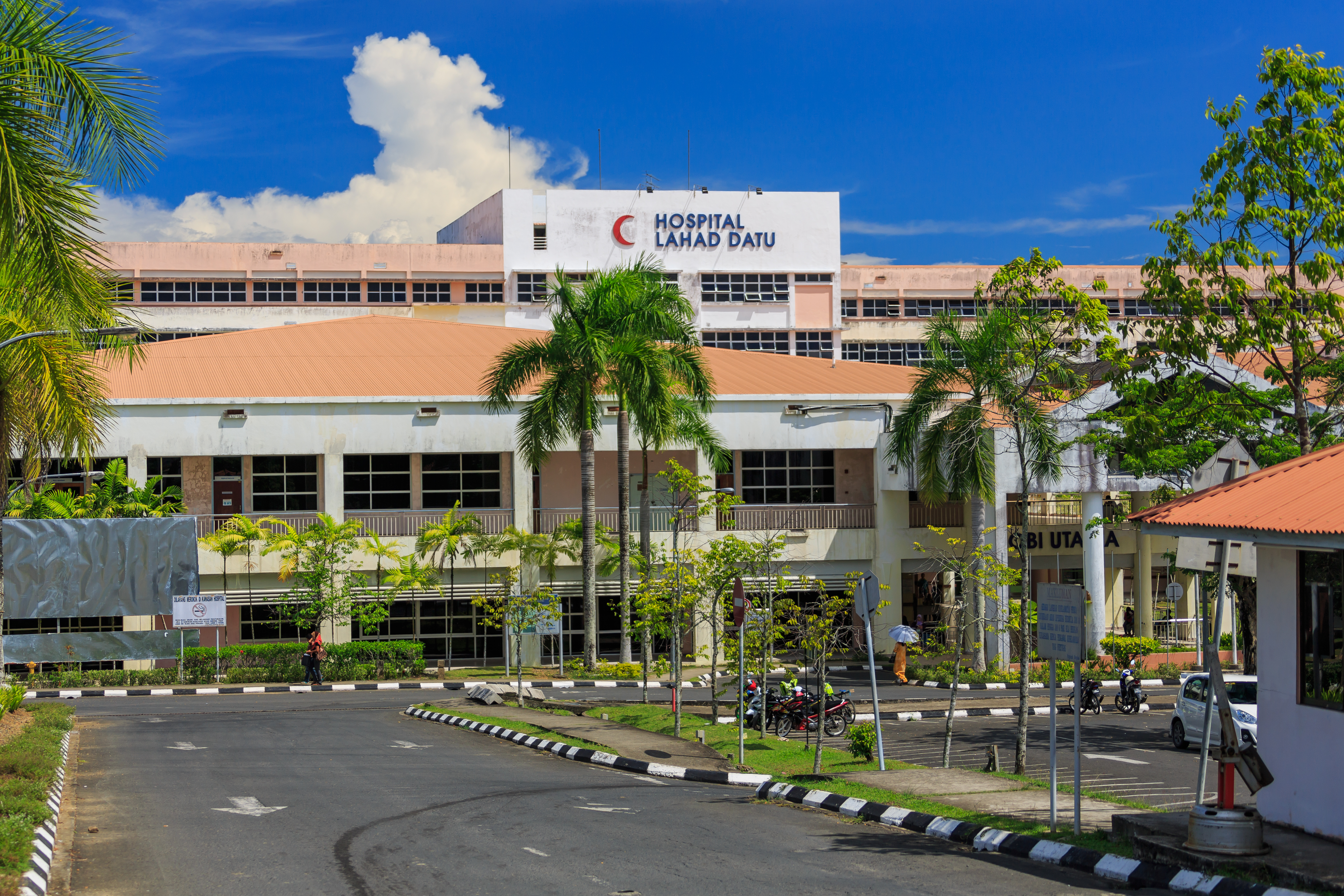 Lahad Datu, Sabah: Hospital Lahad Datu